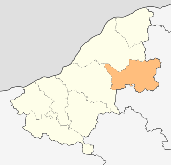 Map of Vetovo municipality, Ruse Province